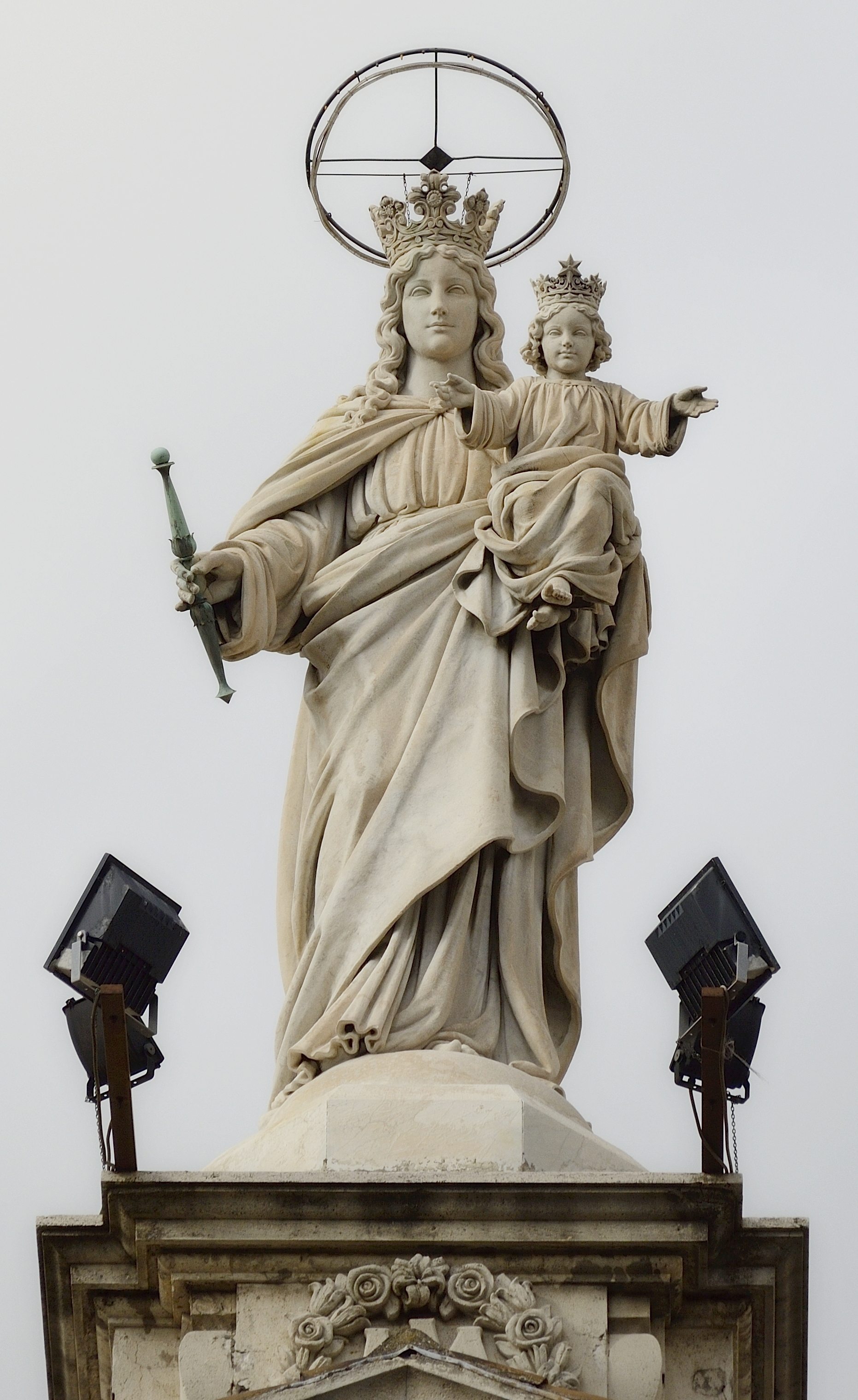 Madonna santa maria ausiliatrice